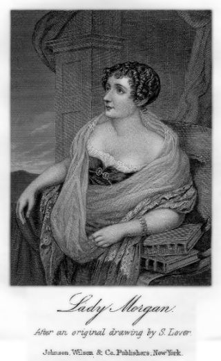 Lady Morgan aka Sydney Owenson, Irish novelist, 1776 - 14 April 1859